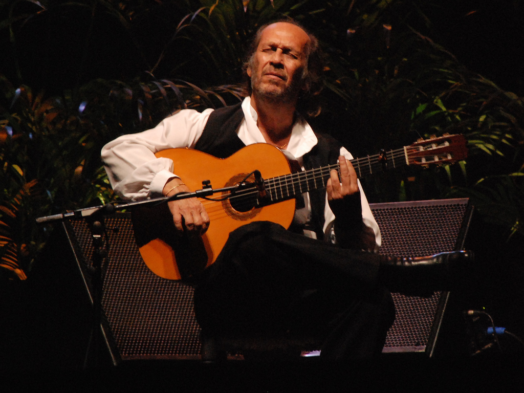 Paco de Lucía at Málaga en Flamenco Festival in Málaga, September 2007.